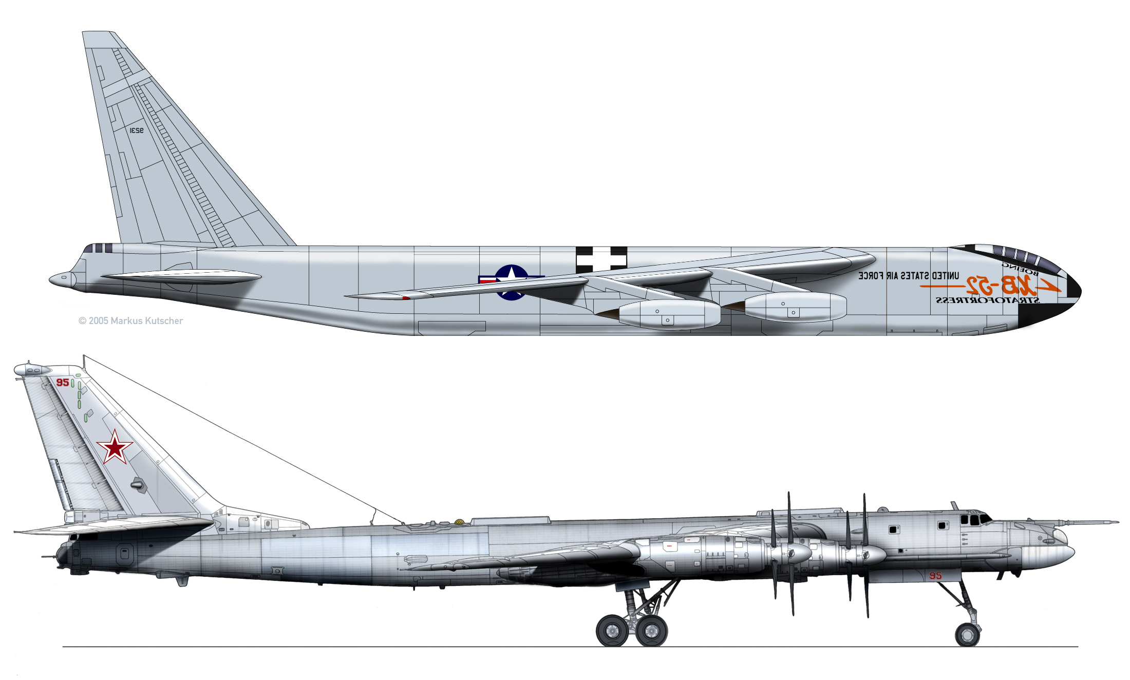 Two aircraft profiles.